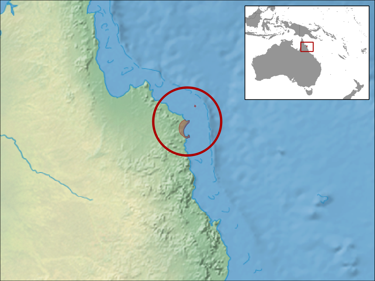 geographic distribution of Carlia dogare